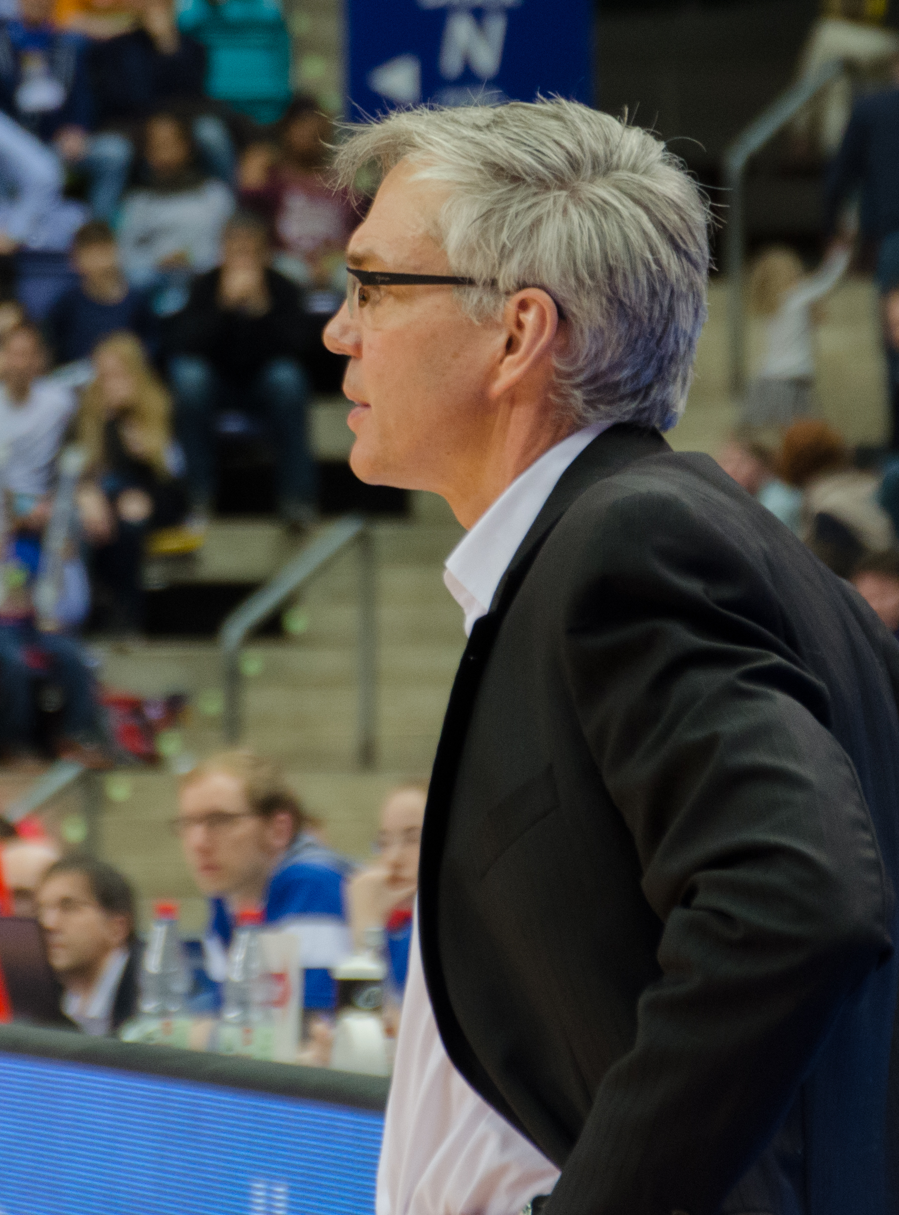 Fraport Skyliners vs Mitteldeutscher BC on 1 March 2015